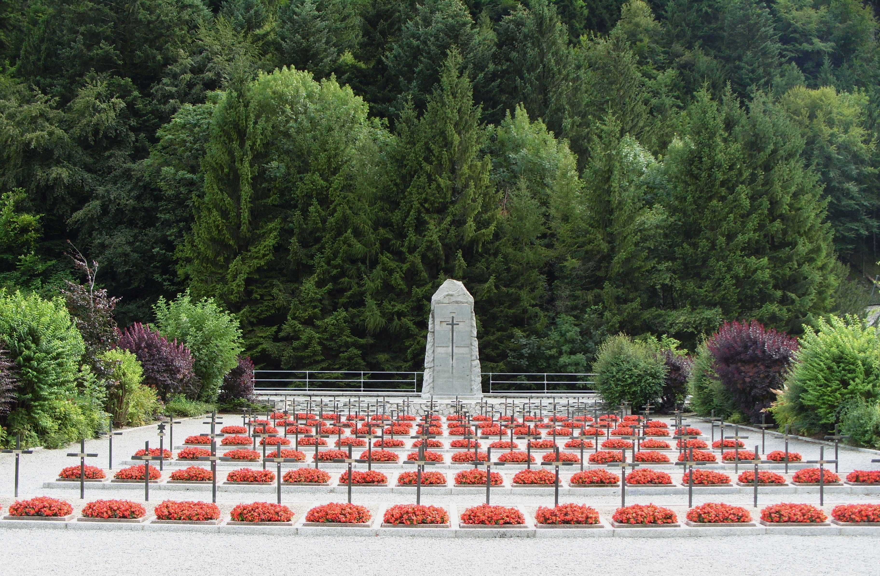 Morette Military Cemetery